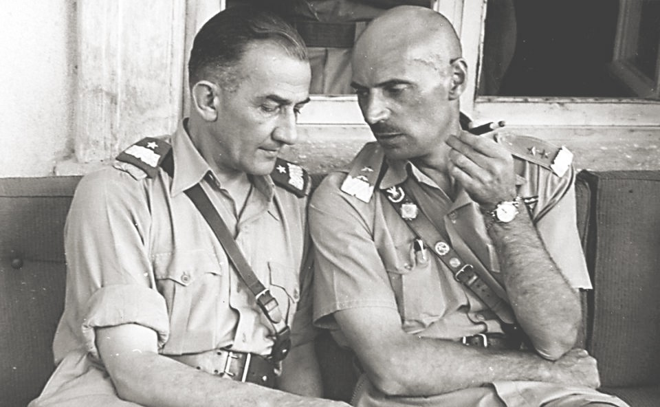 Gen. Tadeusz Klimecki and Gen. Władysław Anders, June 1943